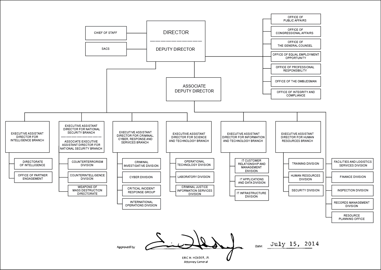 Organizational chart for the U.S. Federal Bureau of Investigation